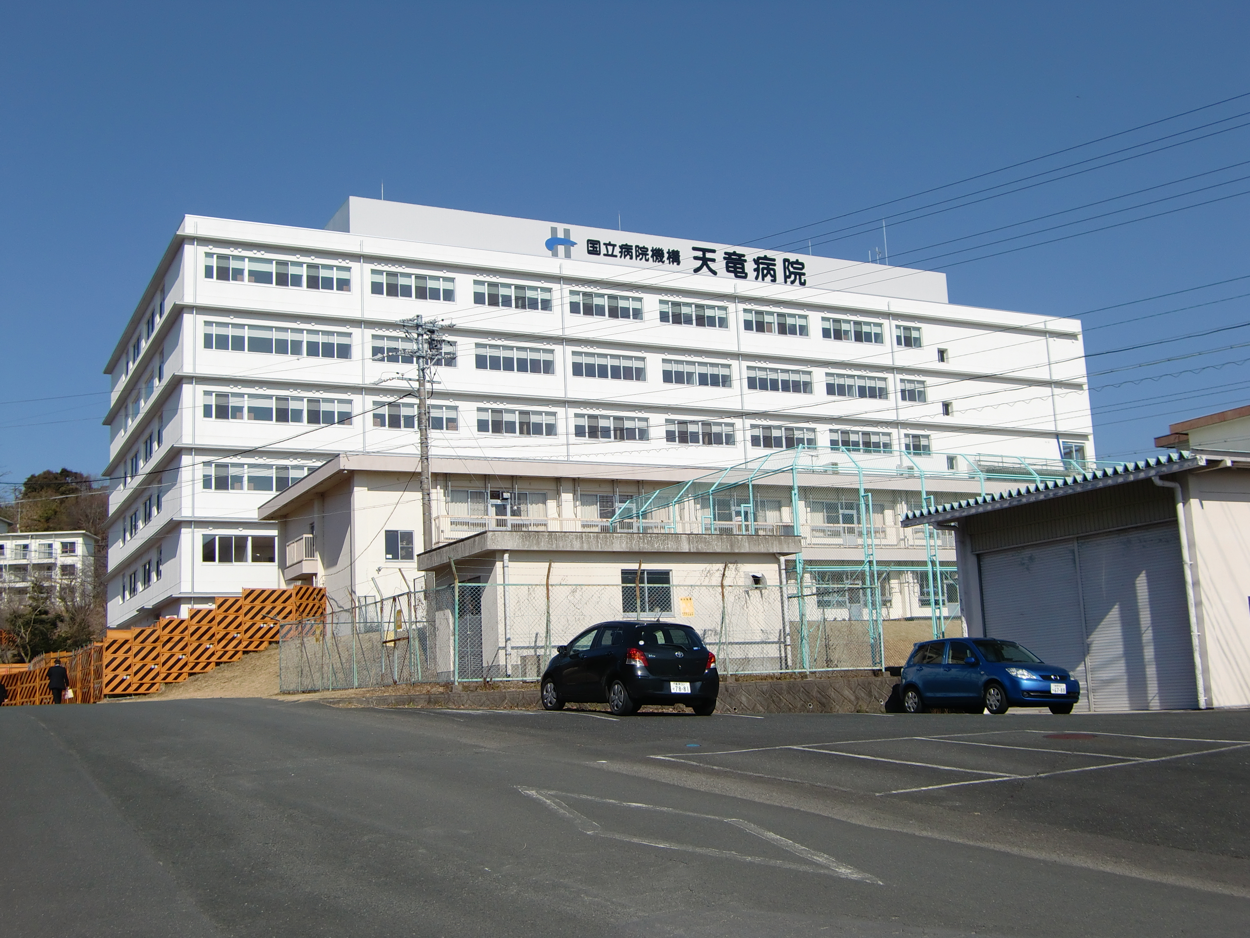 National Hospital Organization Tenryu Hospital1